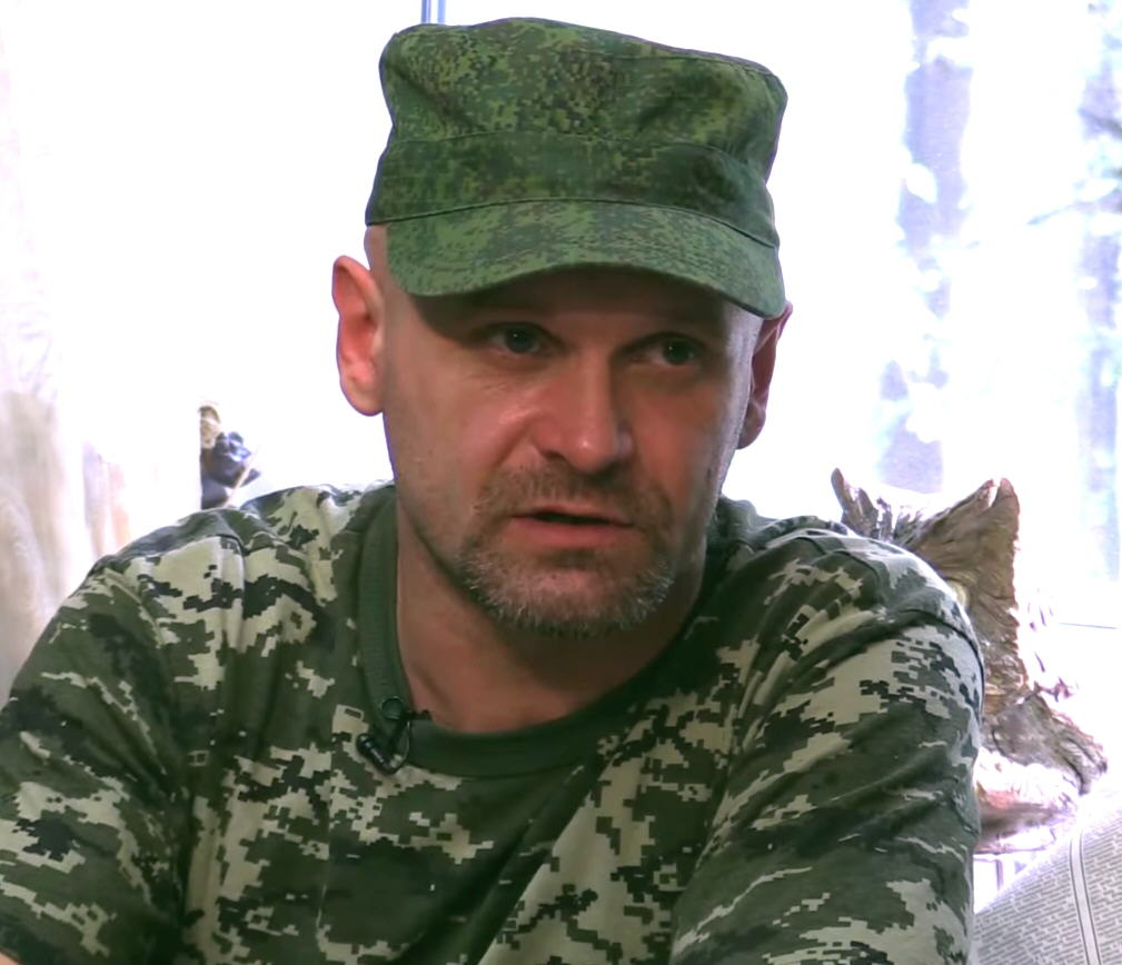 Aleksey Mozgovoy, a Lugansk people's militia leader, discusses military matters, August 7, 2014.